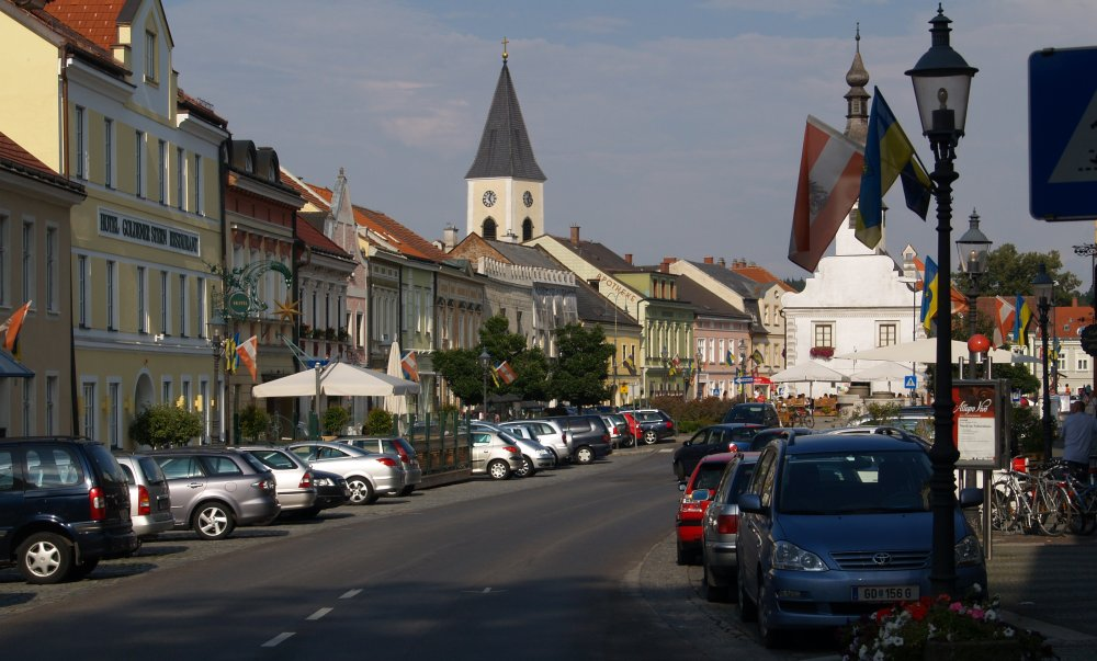 Main square in the town of Gmünd, Lower Austria, near borders with Czech Republic